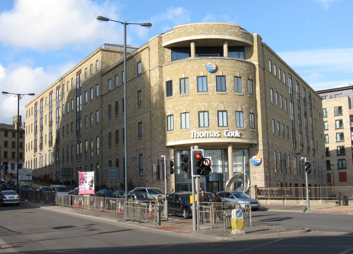 The offices of Thomas Cooke in Bradford city centre